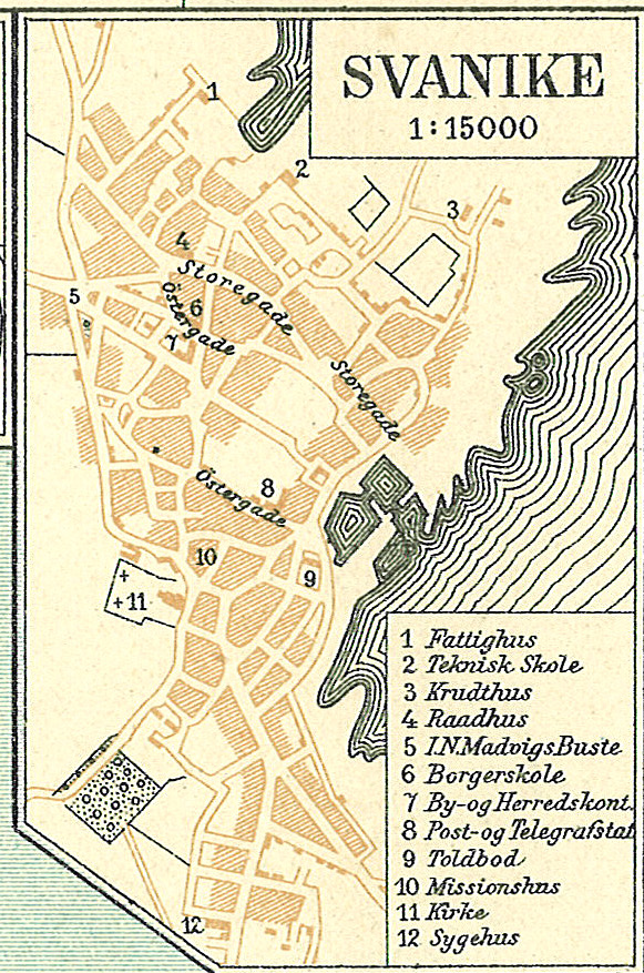 Map of Svaneke on Bornholm in Denmark